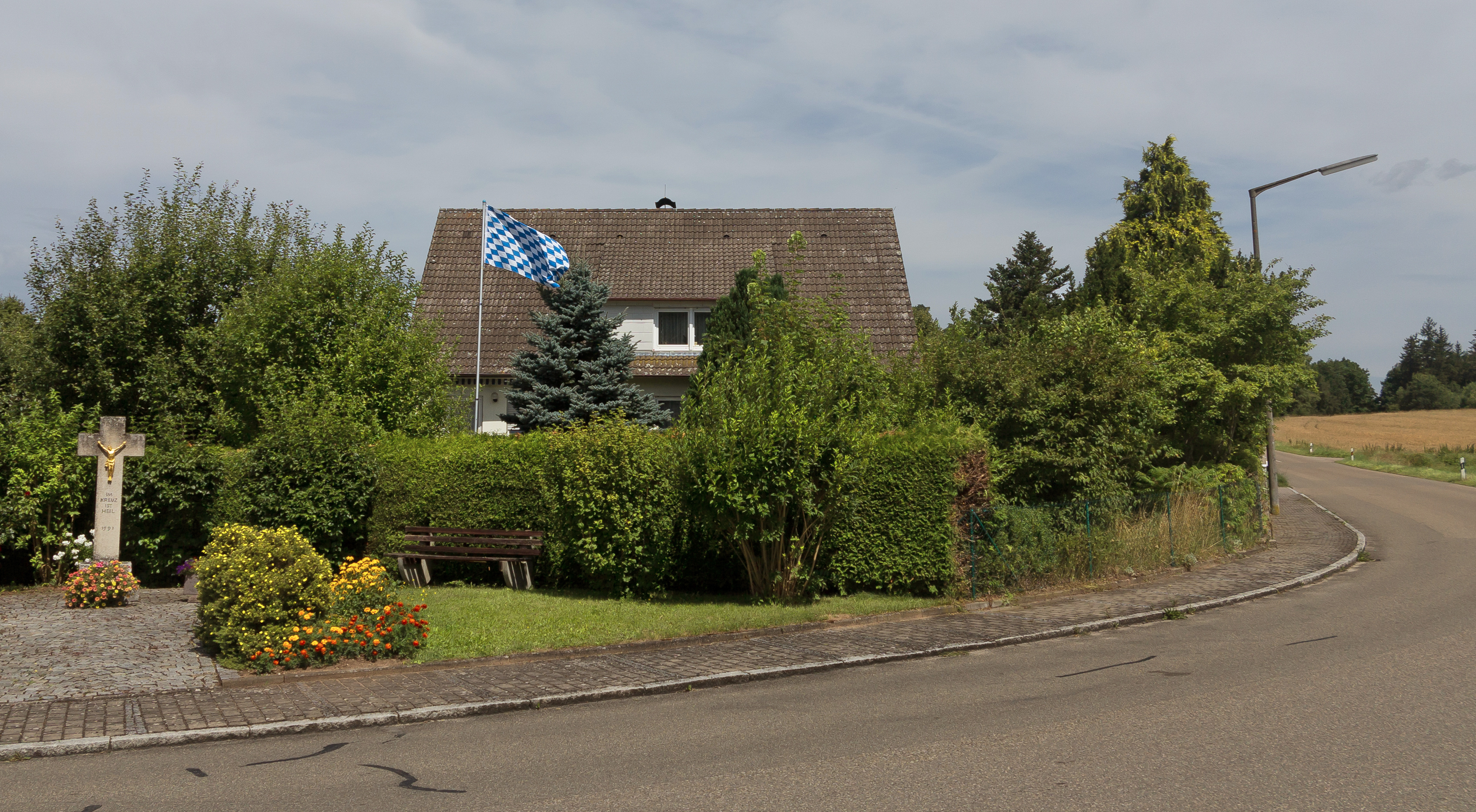 Wittenbach, memorial in the street